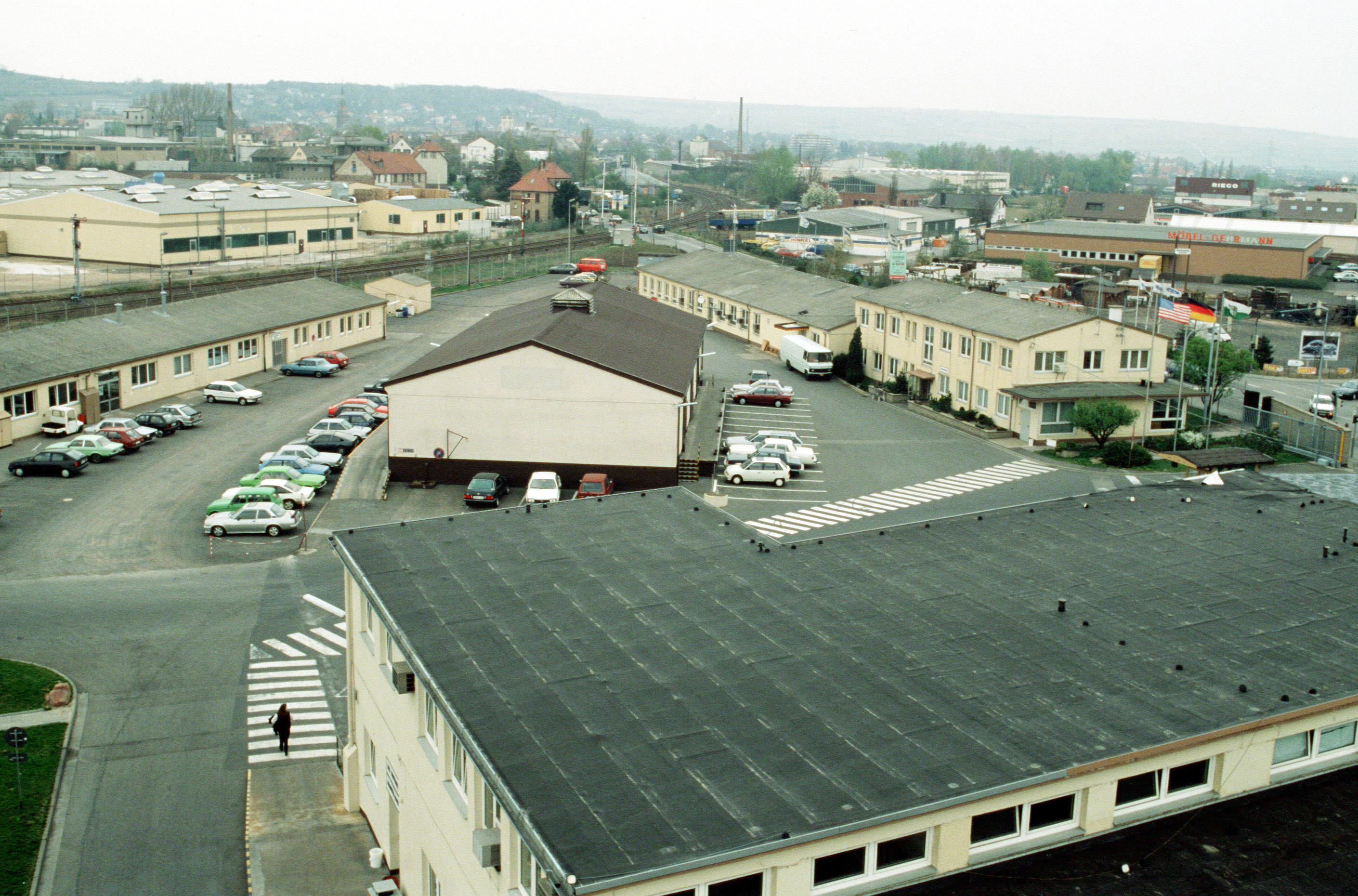 A view of the European Industrial Activities Area, which includes the Army/Air Force Exchange Service bakery in Grünstadt, Germany.